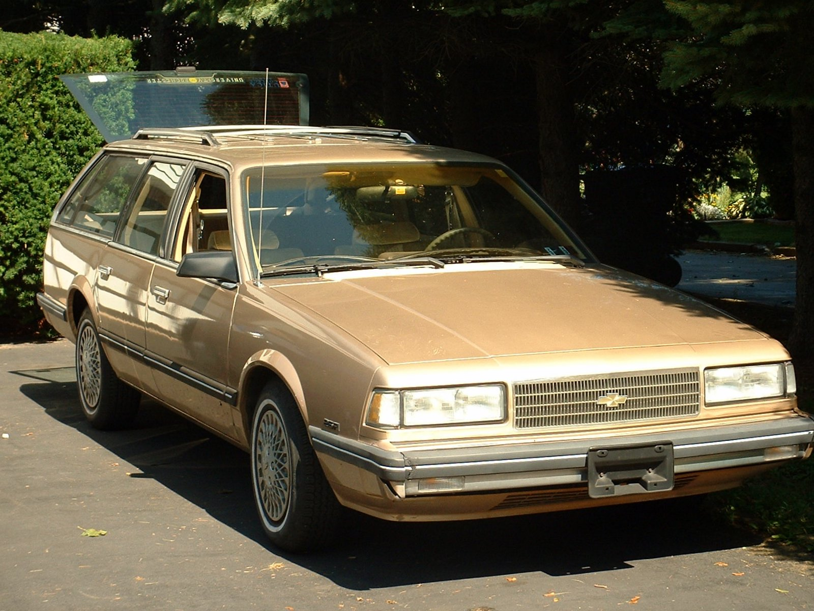 1987 Chevrolet Celebrity Station Wagon Author: Aaron Kuhn